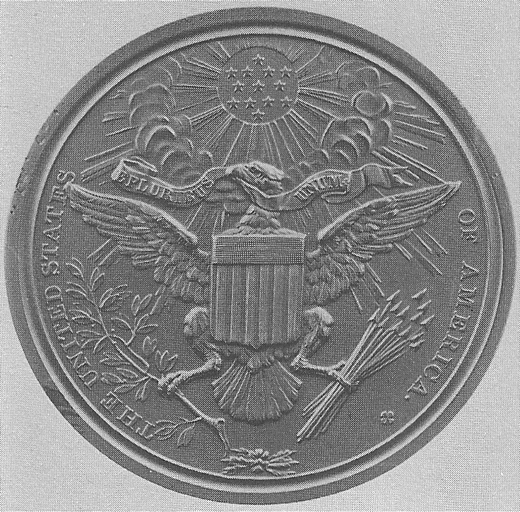 In 1792 two diplomatic medals were made in France as gifts for former French ambassadors to the United States. The reverse had an original design of the Great Seal of the United States made by French engraver Augustin Dupré. The original medals have been lost, but in the 1800s a lead proof was found by Dupré's son, which the U.S. Mint used to make copies in time for the Centennial in 1876. This is a photo of a bronze copy.